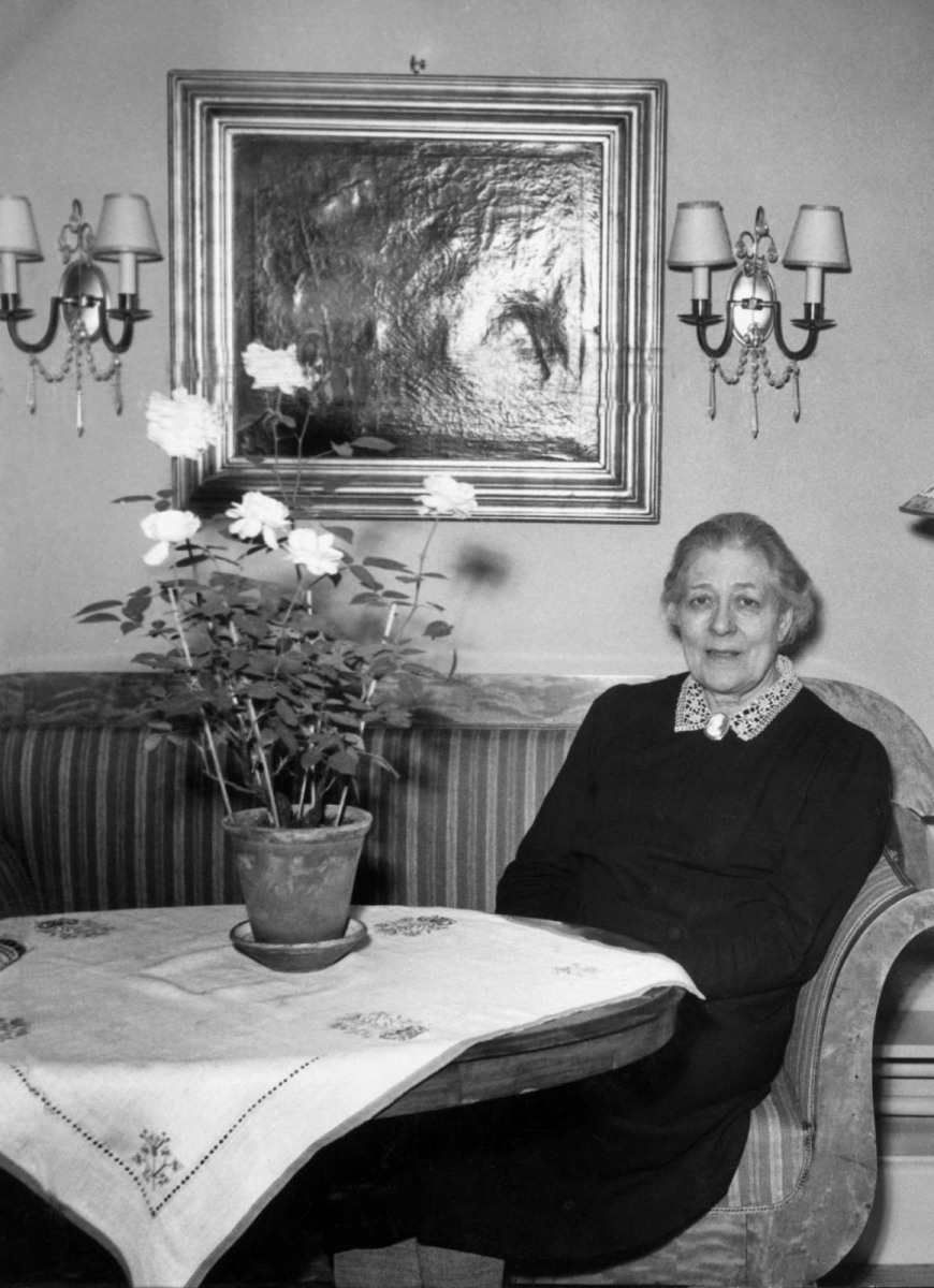 Photograph of the Swedish painter Tyra Kleen (1874–1951) at the time of her 70th birthday.